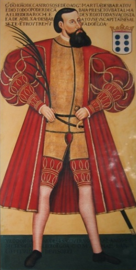 Painting of João de Castro, Viceroy of Portuguese India